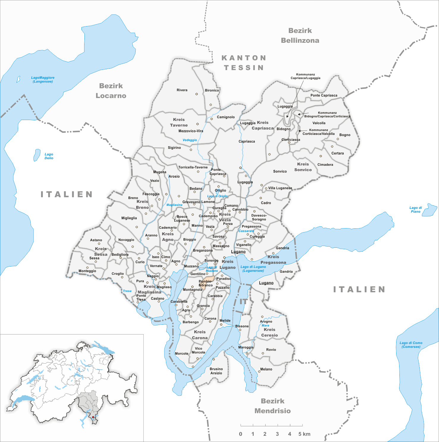 Municipality Pambio-Noranco Artist: Tschubby